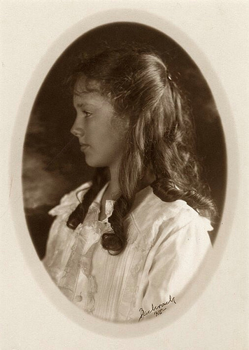 Portrait of Anne Morrow Lindbergh, photographed by Louis Fabian Bachrach, 1918. Image courtesy of the Lindbergh Picture Collection, Yale University Manuscripts & Archives Digital Images Database. Retouched by MarmadukePercy.